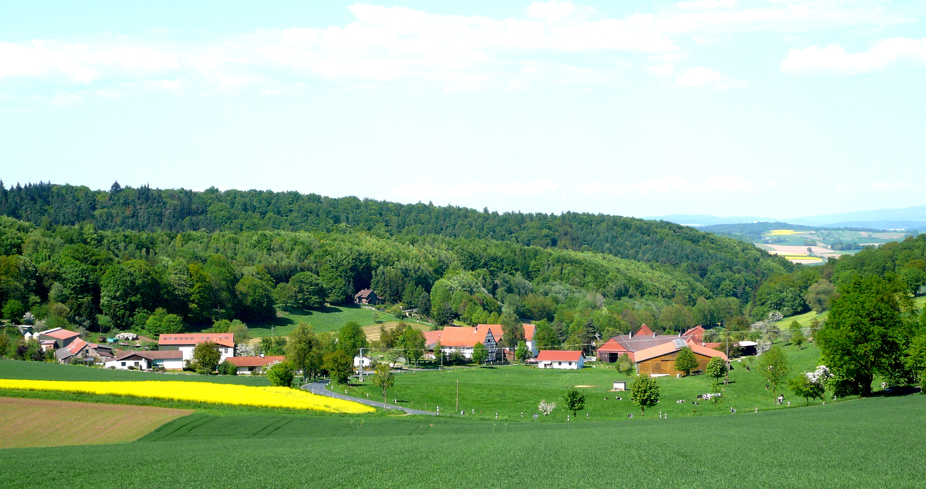 Potzwenden near Göttingen